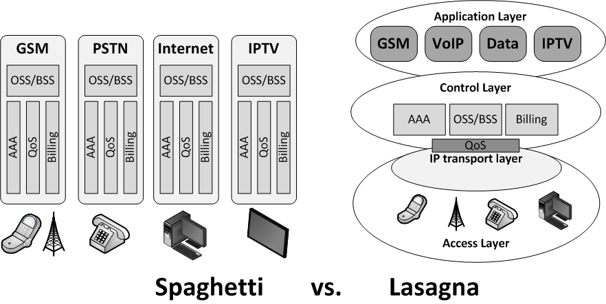 Strictly separated networks vs. a next generation network (NGN)